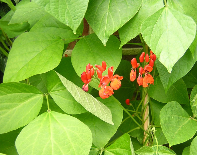 Close-up photograph of runner beans showing flowers and leaves. Photograph taken by Tarquin.